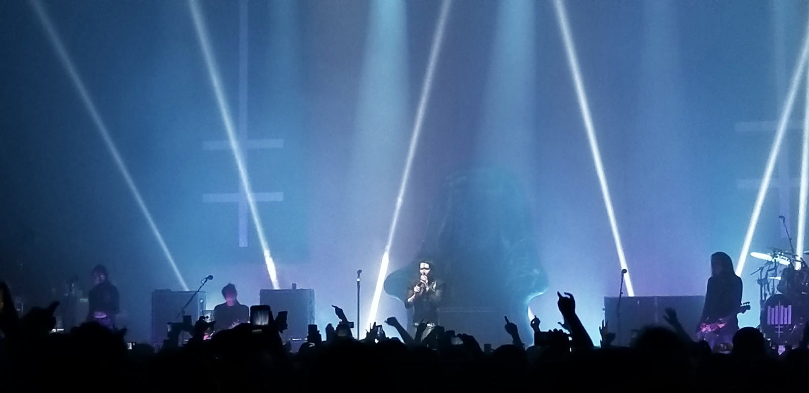 Marilyn Manson live Hammersmith Ballroom